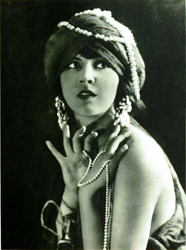 Actress Julanne Johnston on page 15 of the August 1921 Photoplay magazine.